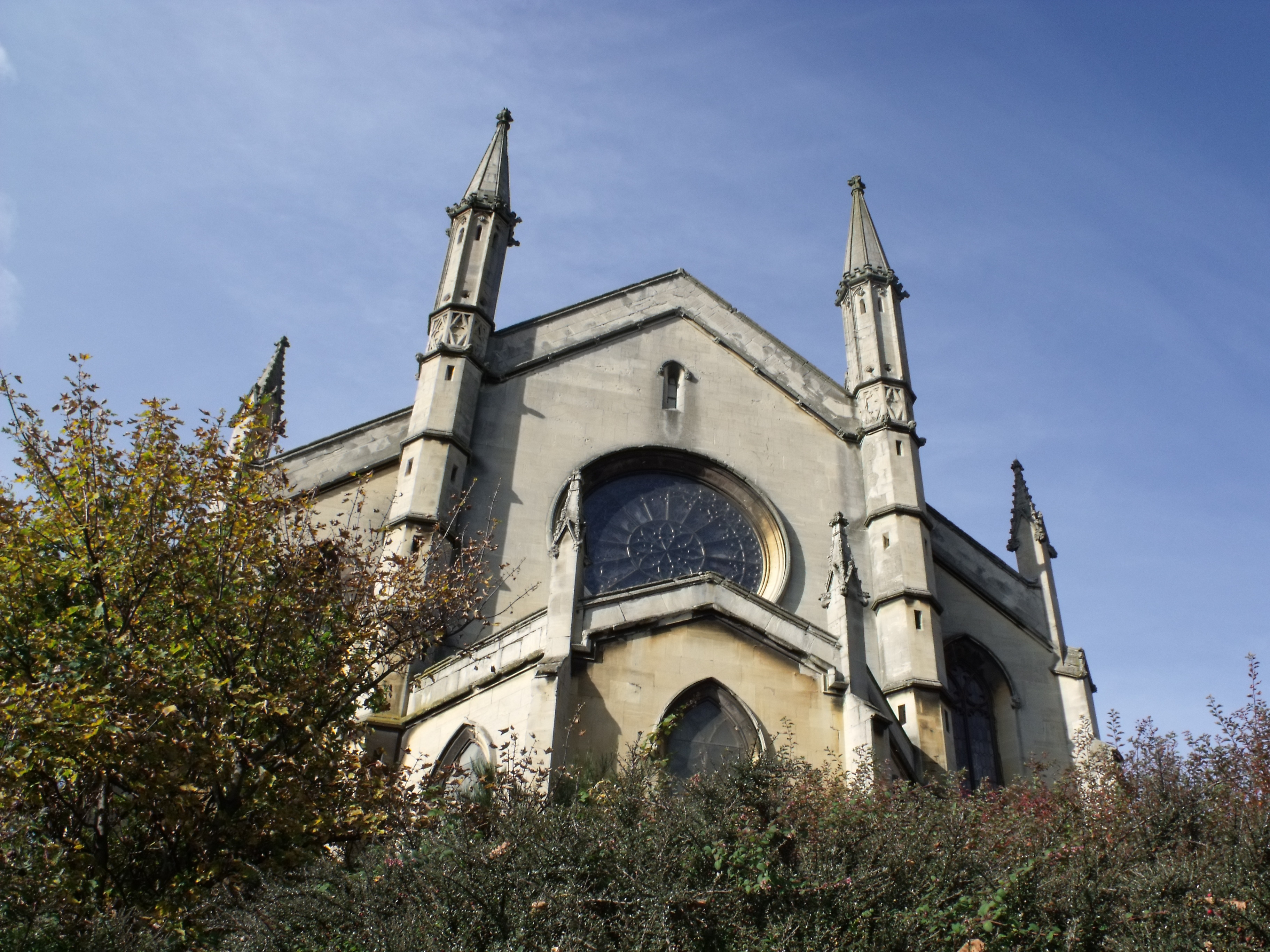 The former Commissioners' Church, the Church of the Holy Trinity at Camp Hill, Birmingham, England, built in 1820-1822. Designed by Francis Goodwin in decorated perpendicular gothic style and made from Bath stone.